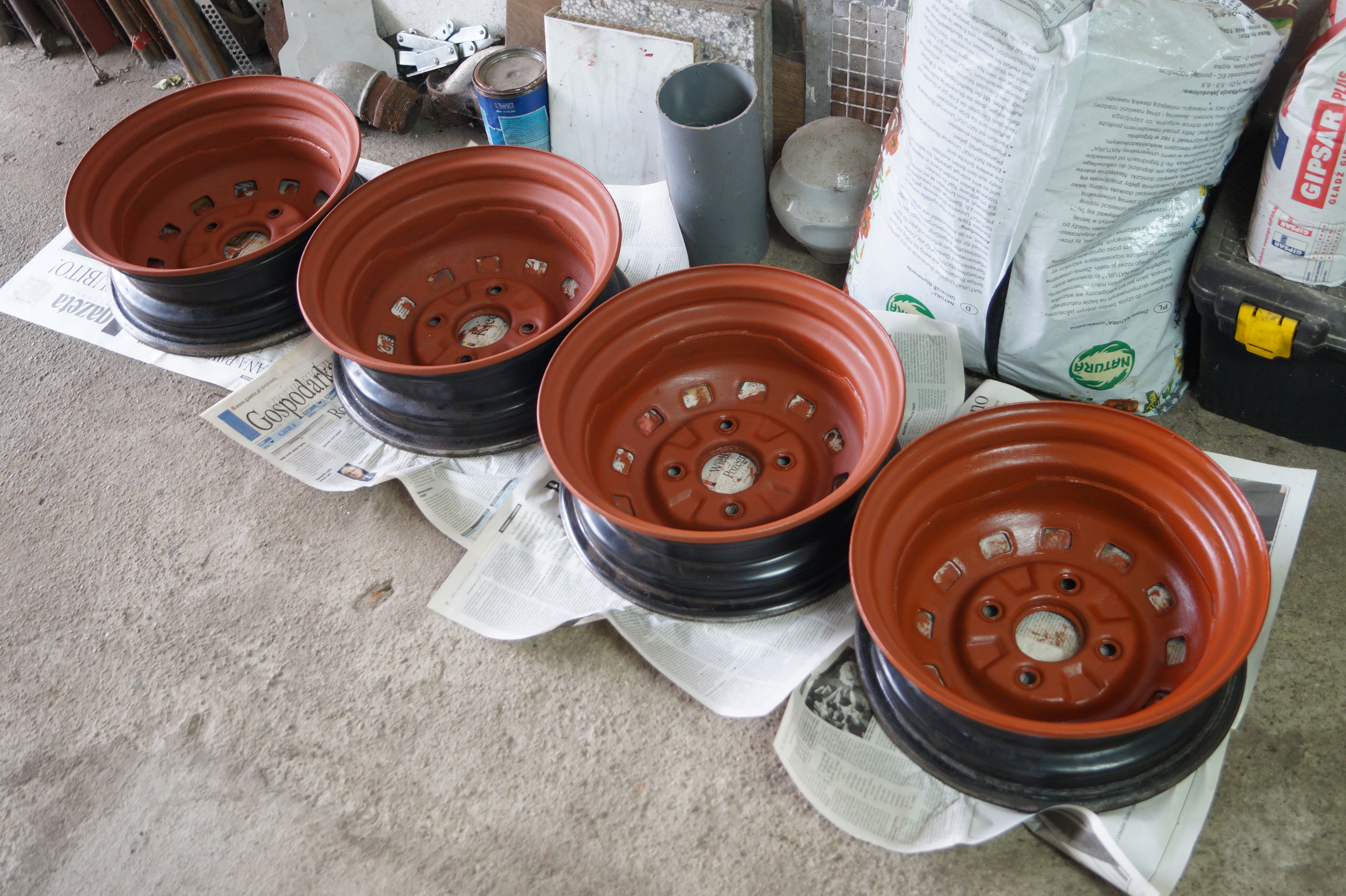 Steel rims painted in red lead